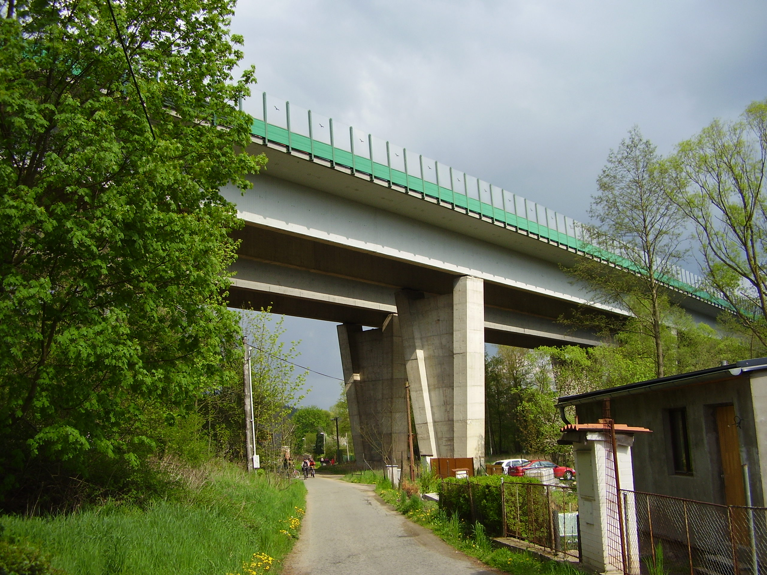 Look at highway bridge Hvězdonice from west